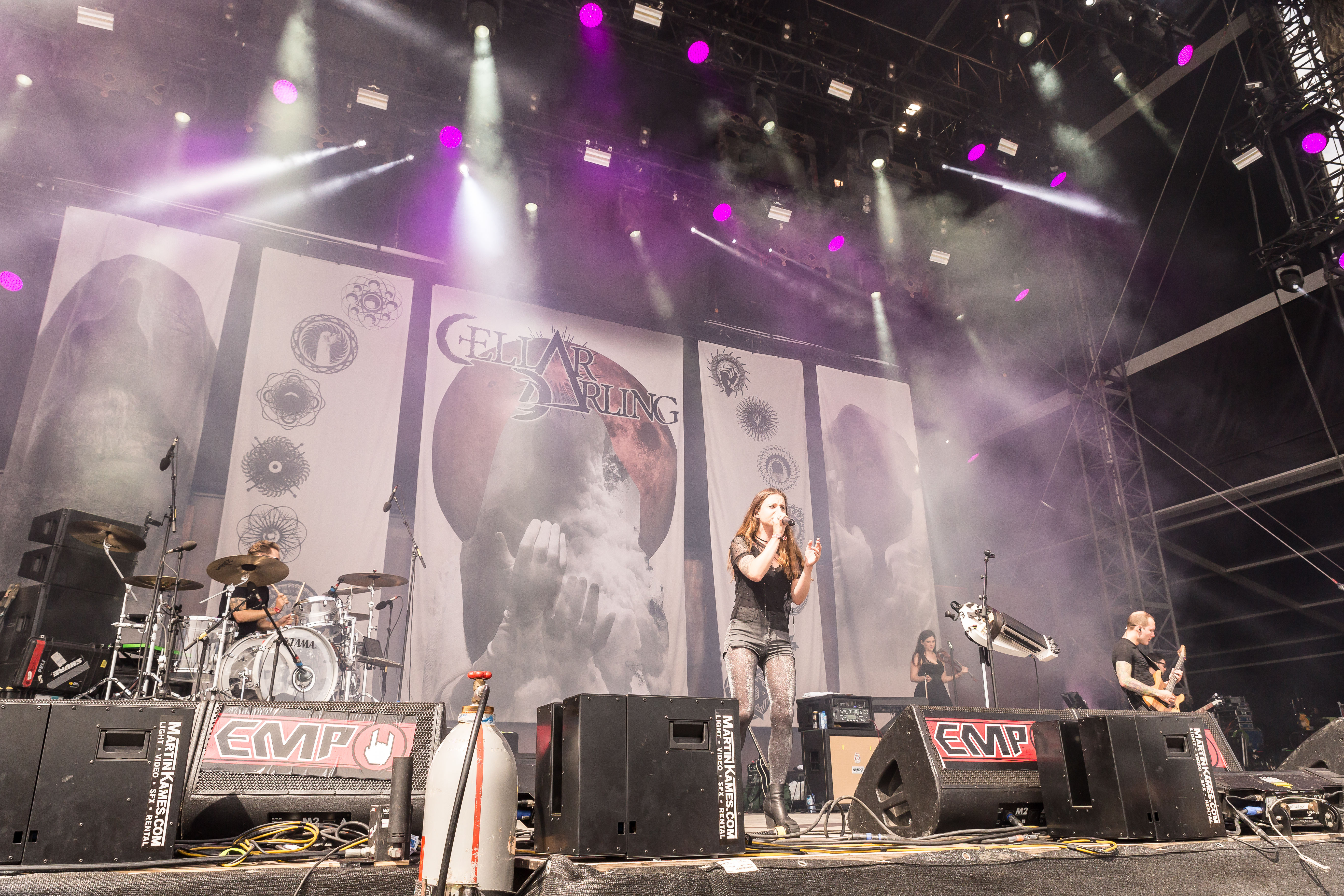 The Swiss folk metal band Cellar Darling at the Summer Breeze Open Air 2017 in Dinkelsbühl/Germany.